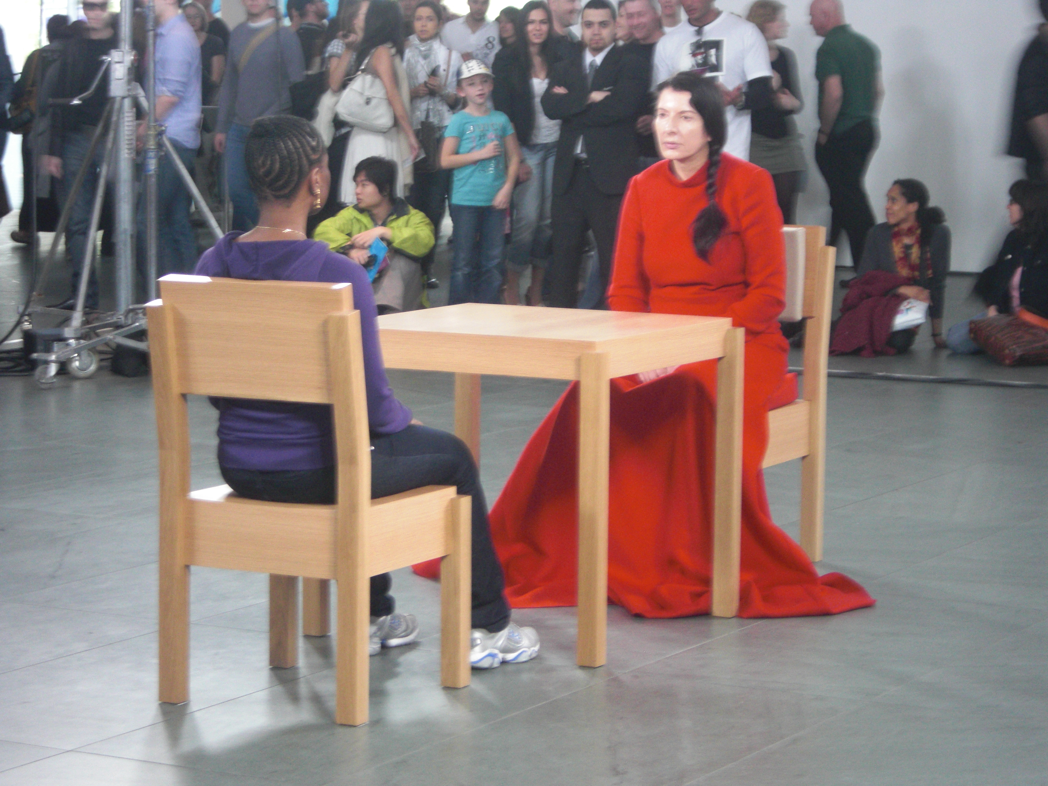 Performance artist Marina Abramovic at the Museum of Modern Art in New York City, April 2010.